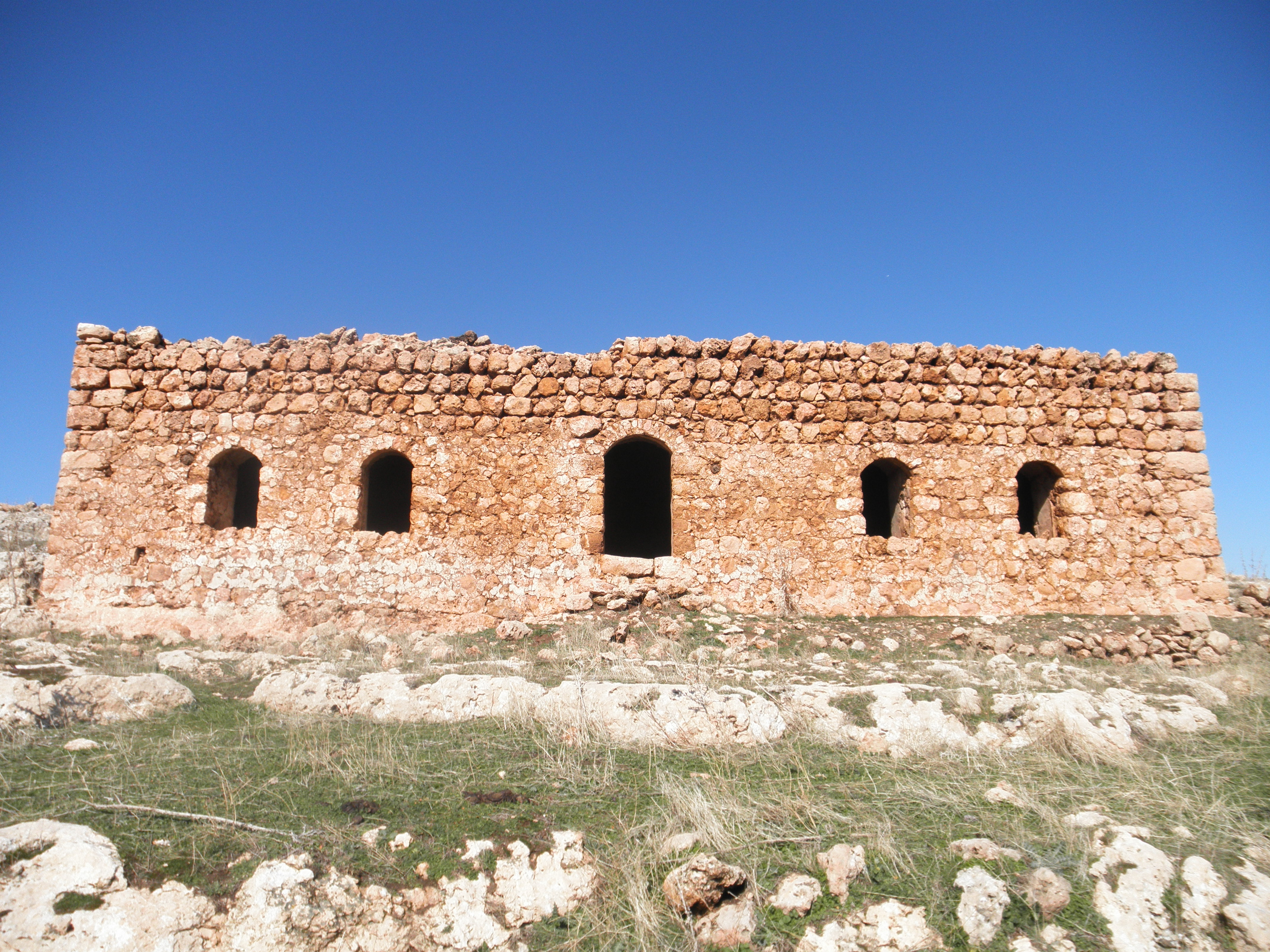 A traditional Kurdish house from a burned Kurdish village (by Turkish army) in Dargeçit, Mardin Province, Turkey. Kurdî: Xaniyek ji gundê Dîlan, li Kerboranê.